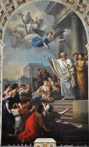 St Denis Preaching in Gaullabel QS:Lfr,"La Prédication de saint Denis"